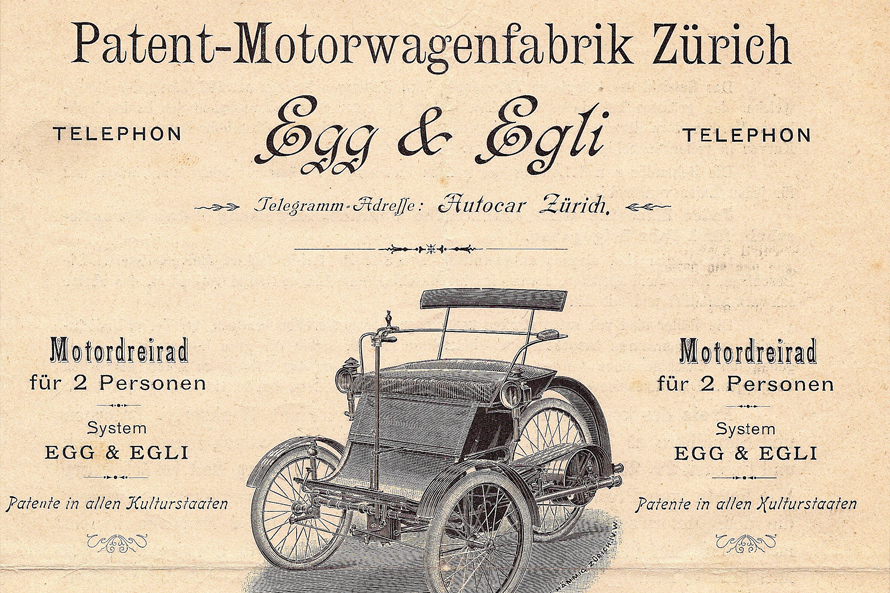 Advertisement for the Egg & Egli motor-tricycle, which was produced between 1896 and 1899.